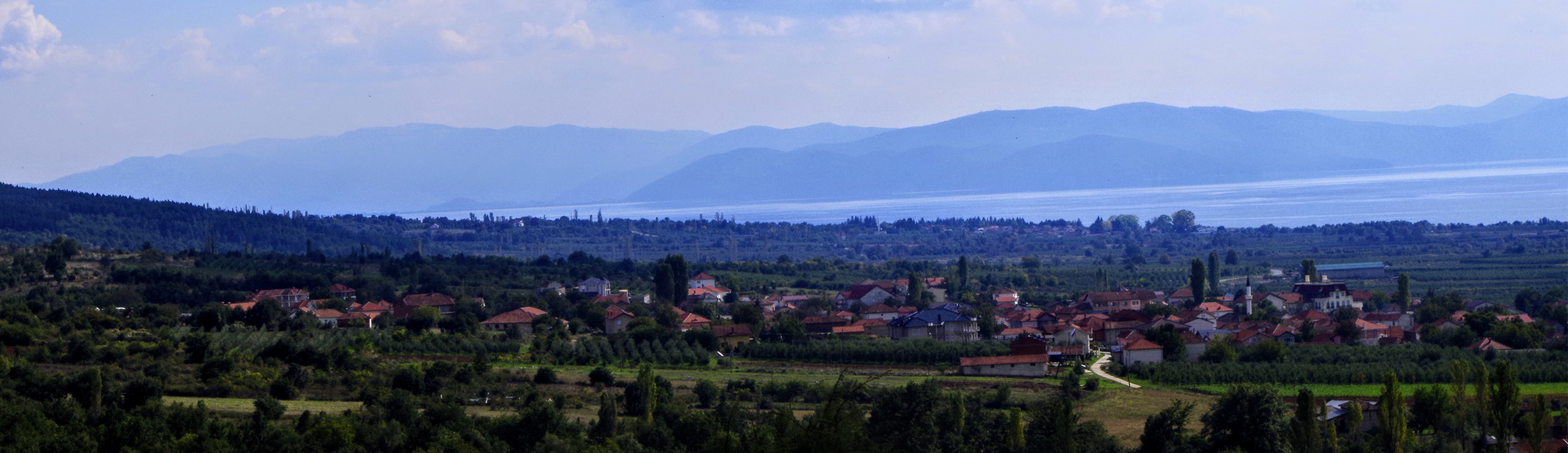 View of the village Grnčari